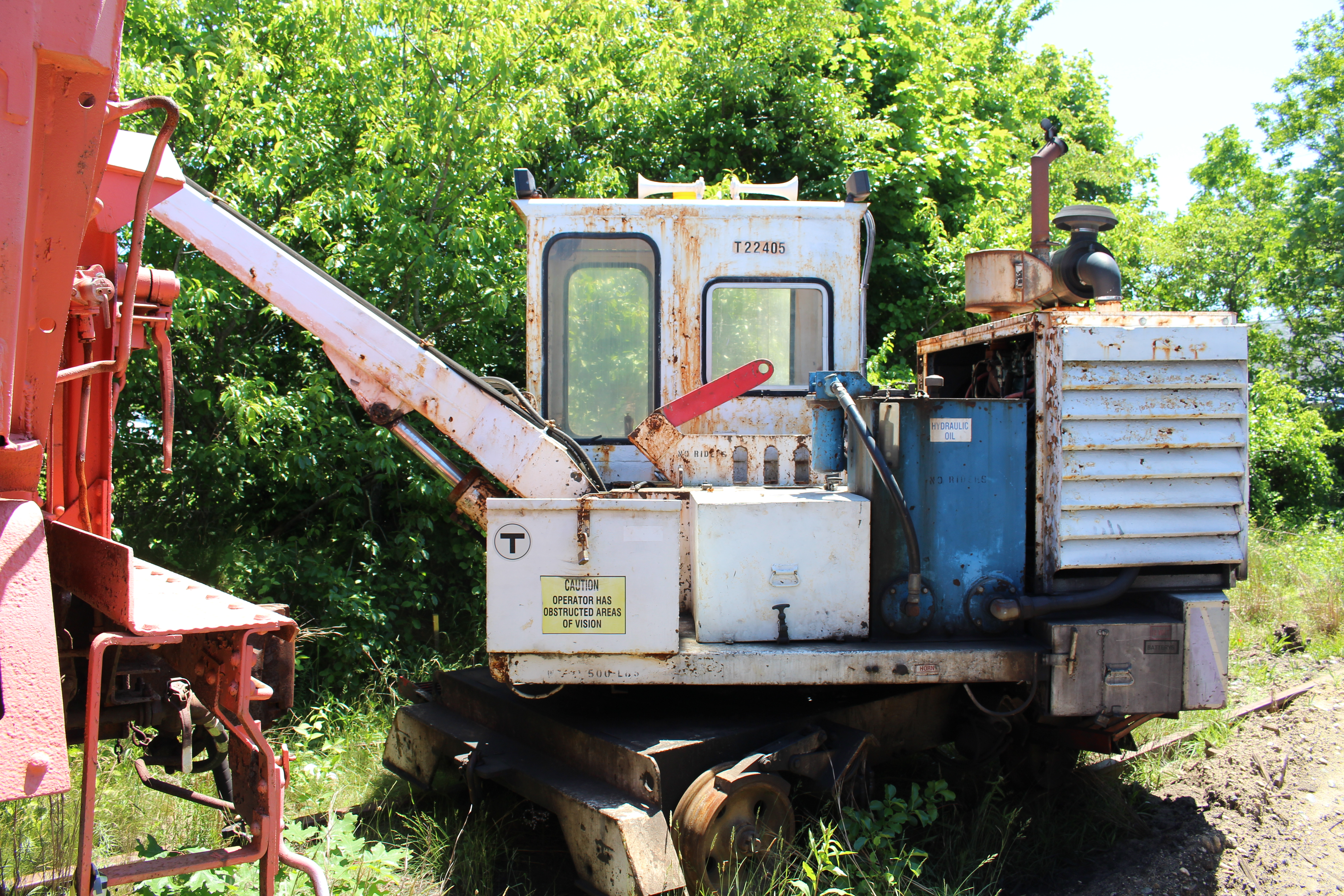 MBTA rail equipment on the siding in Hyannis.